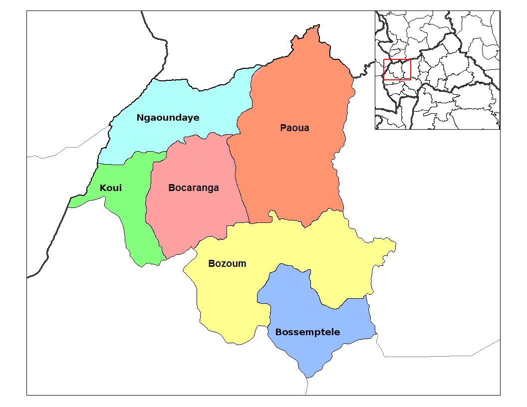 Map of the sub-prefectures of Ouham-Pende prefecture in the Central African Republic. Created by Rarelibra 20:51, 31 August 2006 (UTC) for public domain use, using MapInfo Professional v8.5 and various mapping resources.